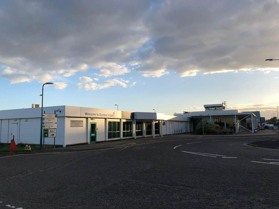 Inserting an up to date Image of Dundee's Airport